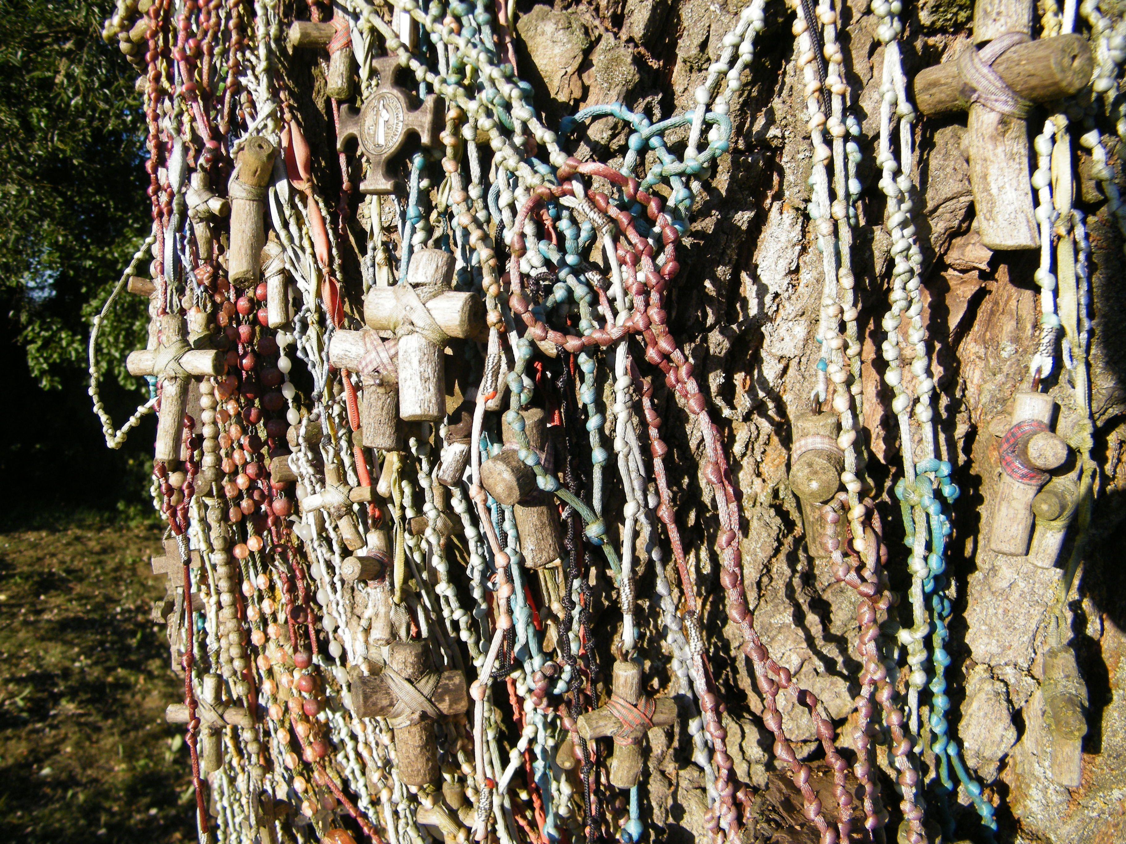 Rosaries on a tree growing at the site of her vision of Jesus in July 1929